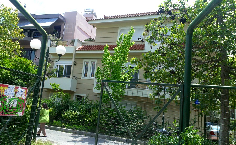 ilion